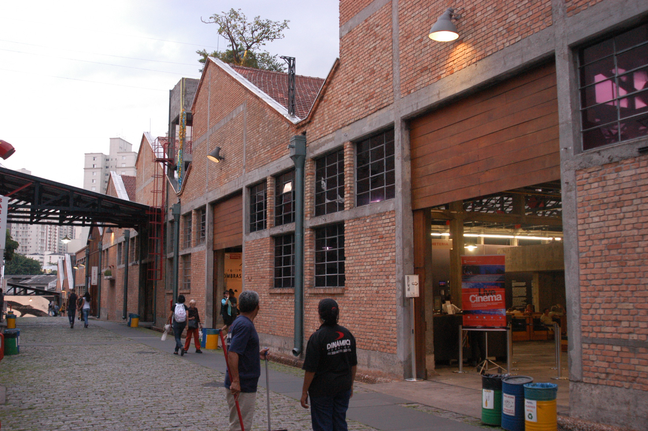 SESC Pompeia building where Wikimedia Brasil conference was held.